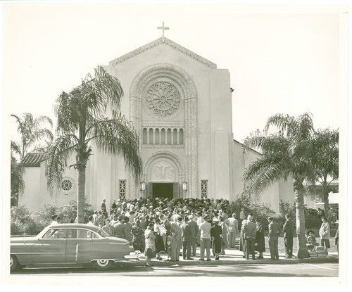 View of front - circa 1950